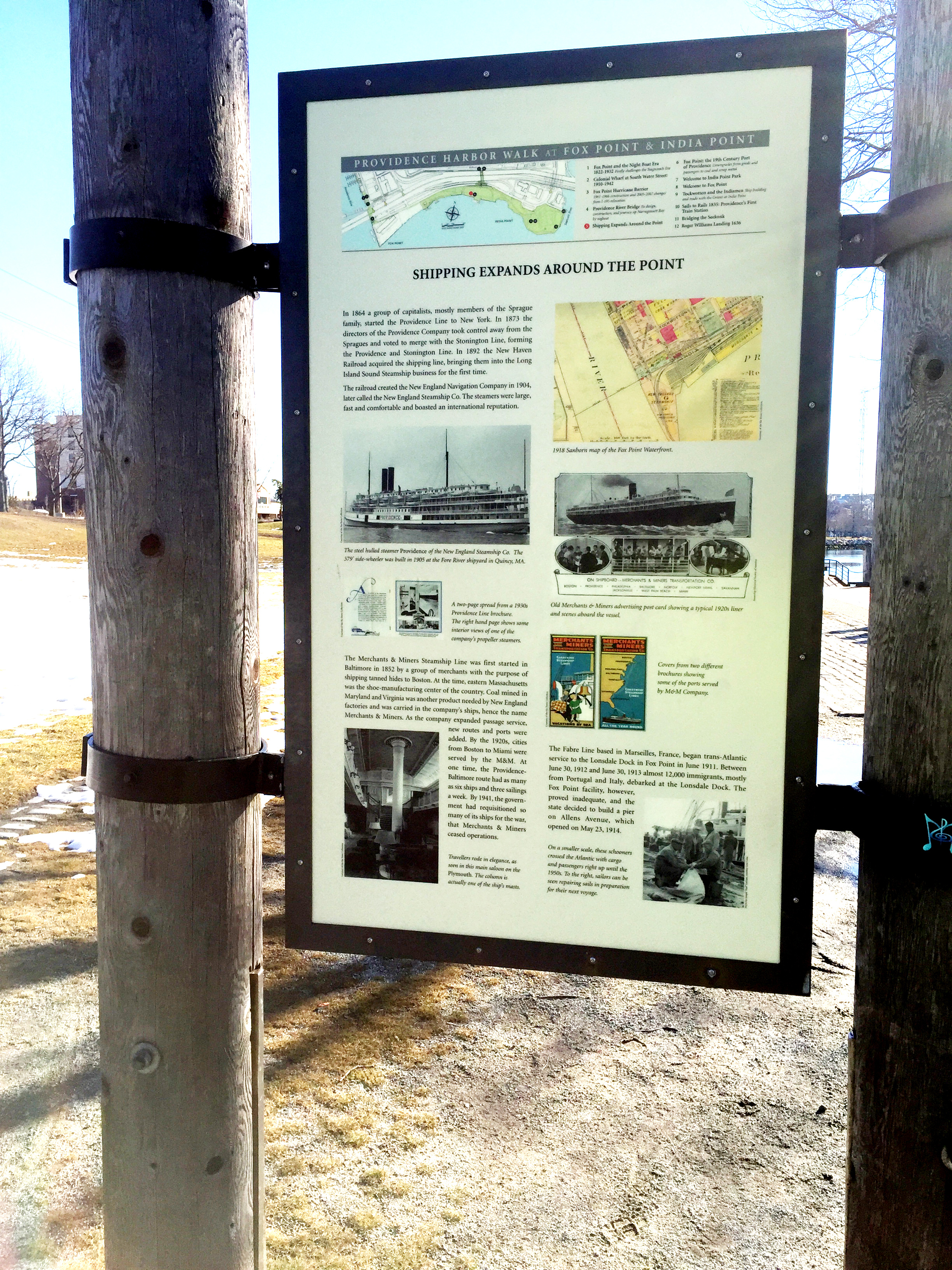 Informational sign in India Point Park, Providence, Rhode Island.